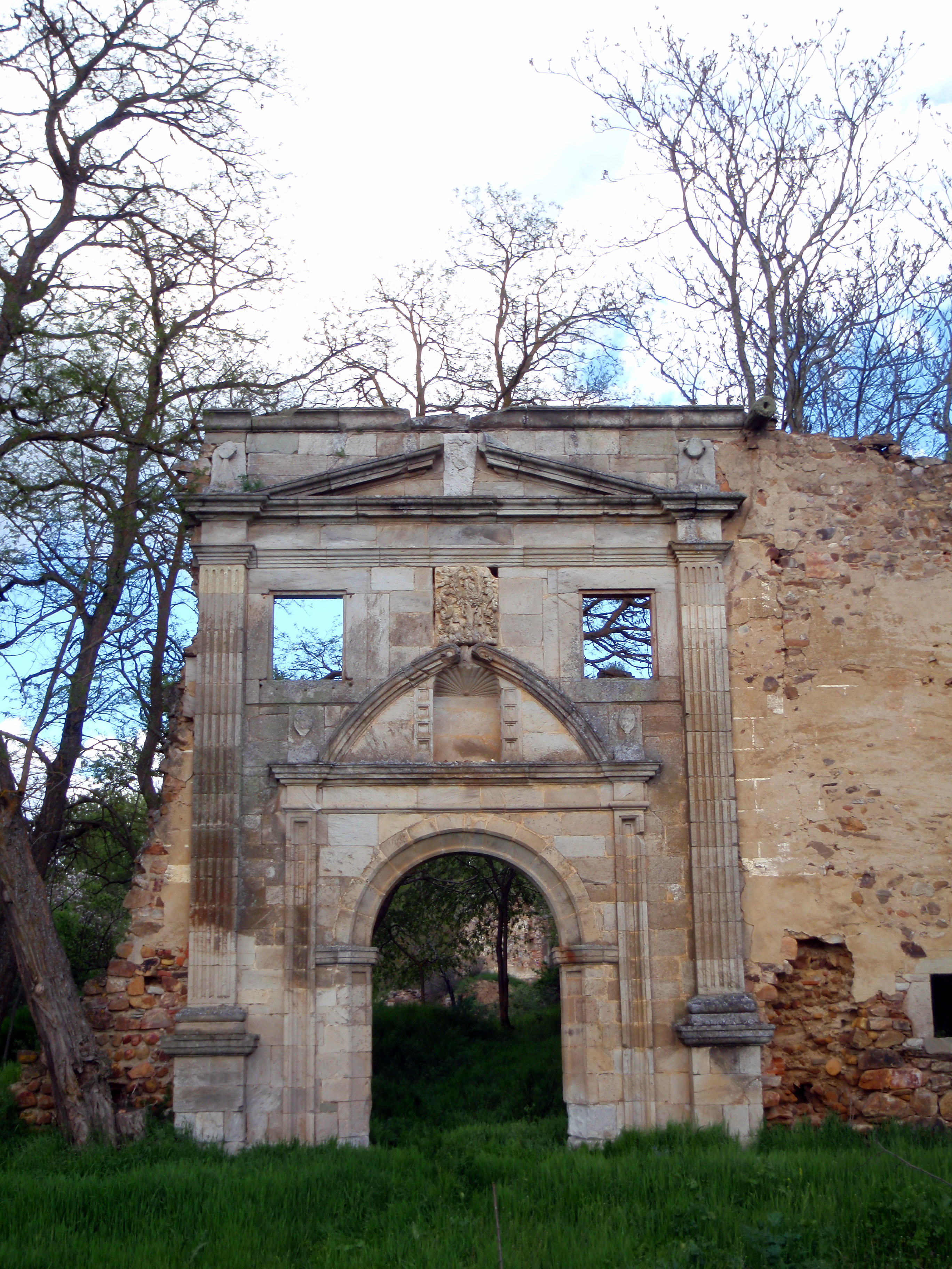 Ruins of the monastery of Santa Maria de Nogales, close to the town of San Esteban de Nogales (Province of León, Spain)